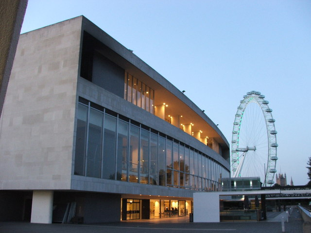 The Royal Festival Hall - South Bank The Royal Festival Hall with the Millennium Wheel in the background.